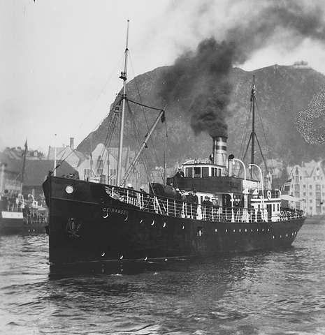 Norwegian steamship SS Geiranger leaving Ålesund.